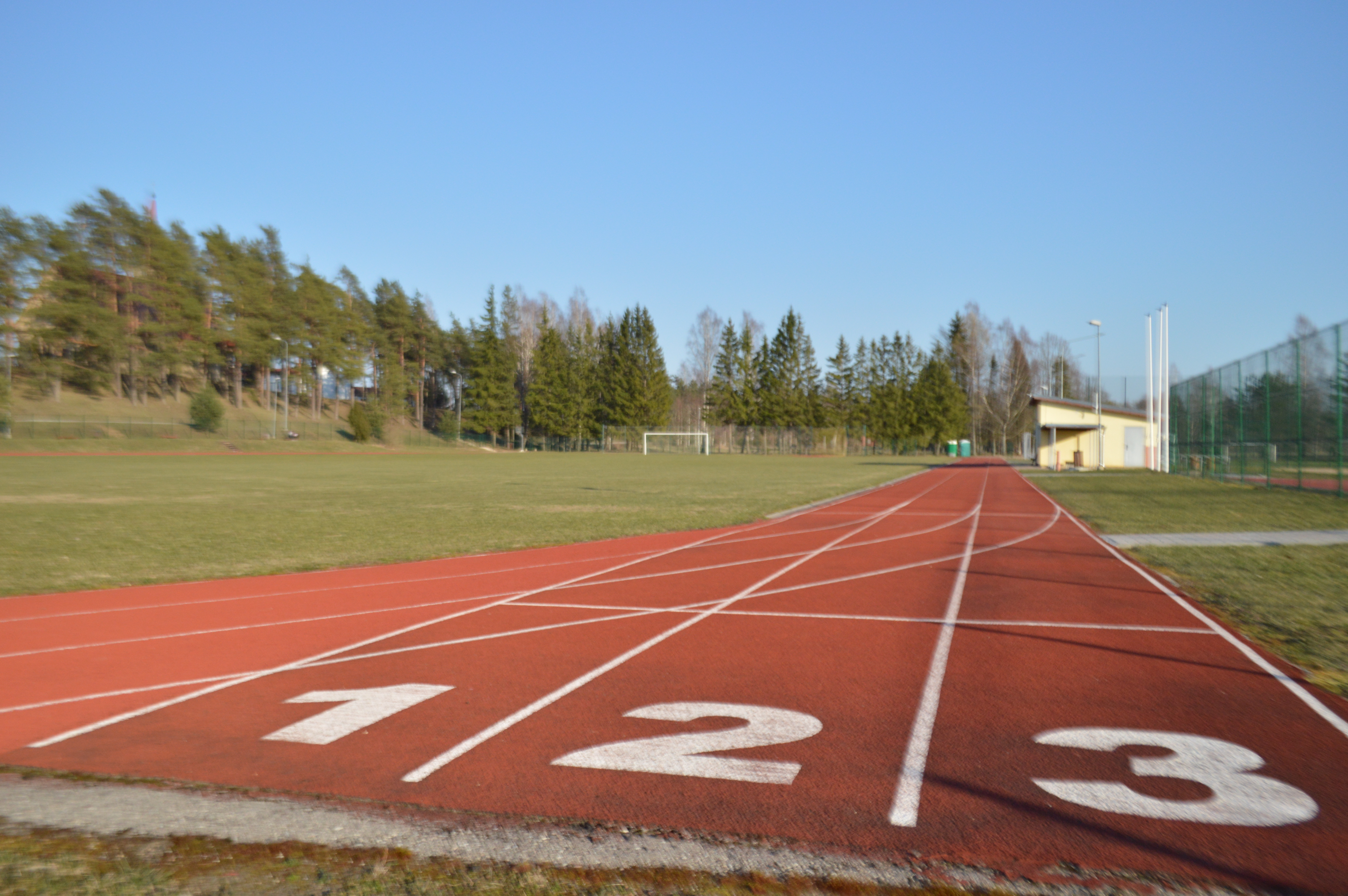 Viesīte town stadium.